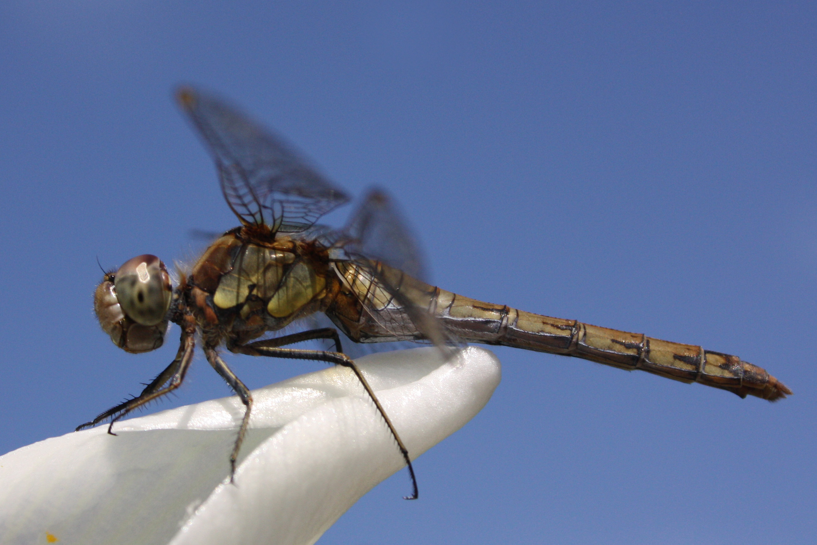 Common darter dragonfly, female (sympetrum striolatum), photographed in Oxfordshire